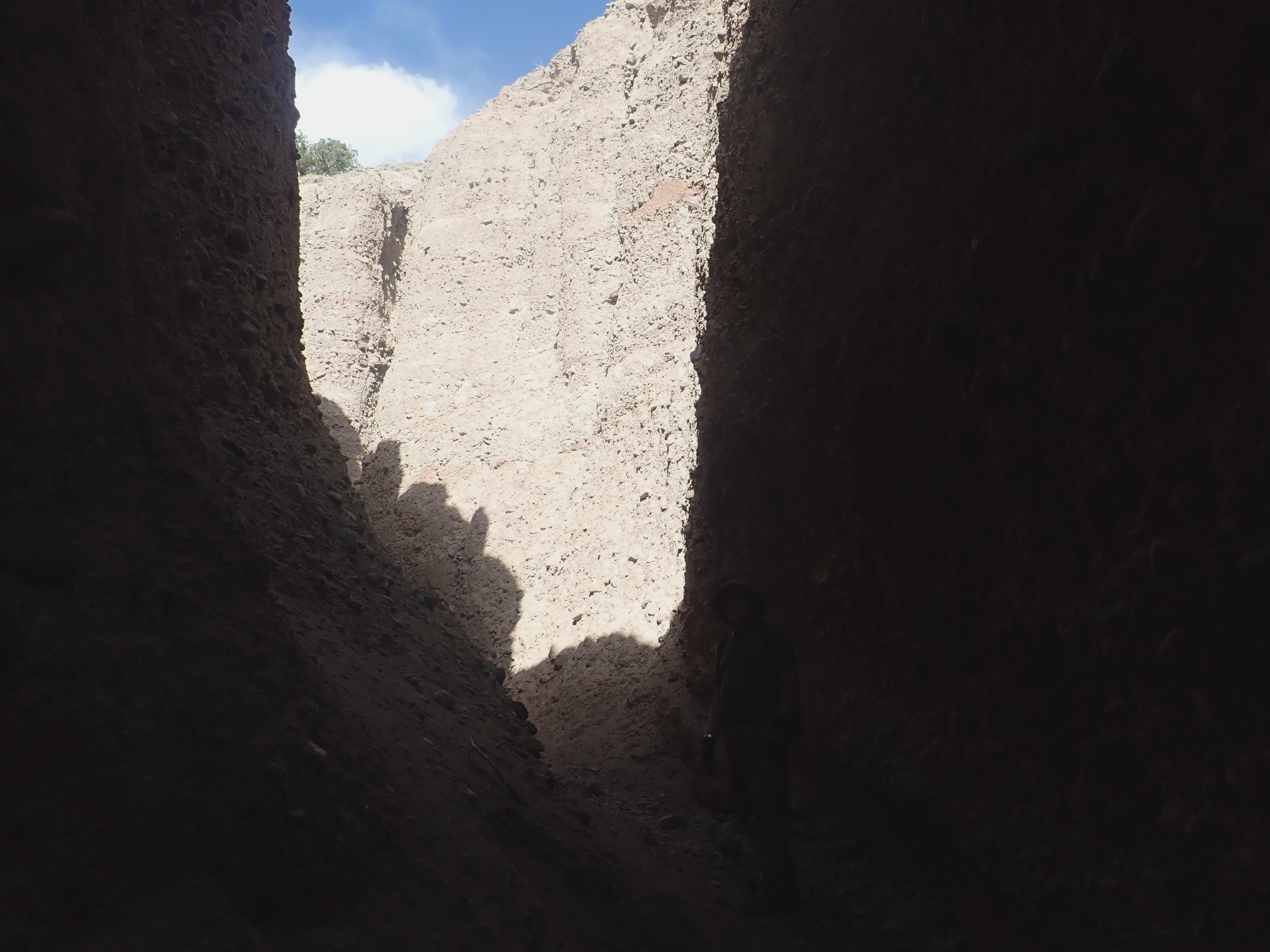 This image depicts a slot canyon eroded into the Ritito Conglomerate, an Oligocene formation found near Abiquiu, New Mexico, and identified in older sources as the lower Abiquiu Formation. The image has been adjusted slightly for exposure and contrast to bring out more of the shadowed area.